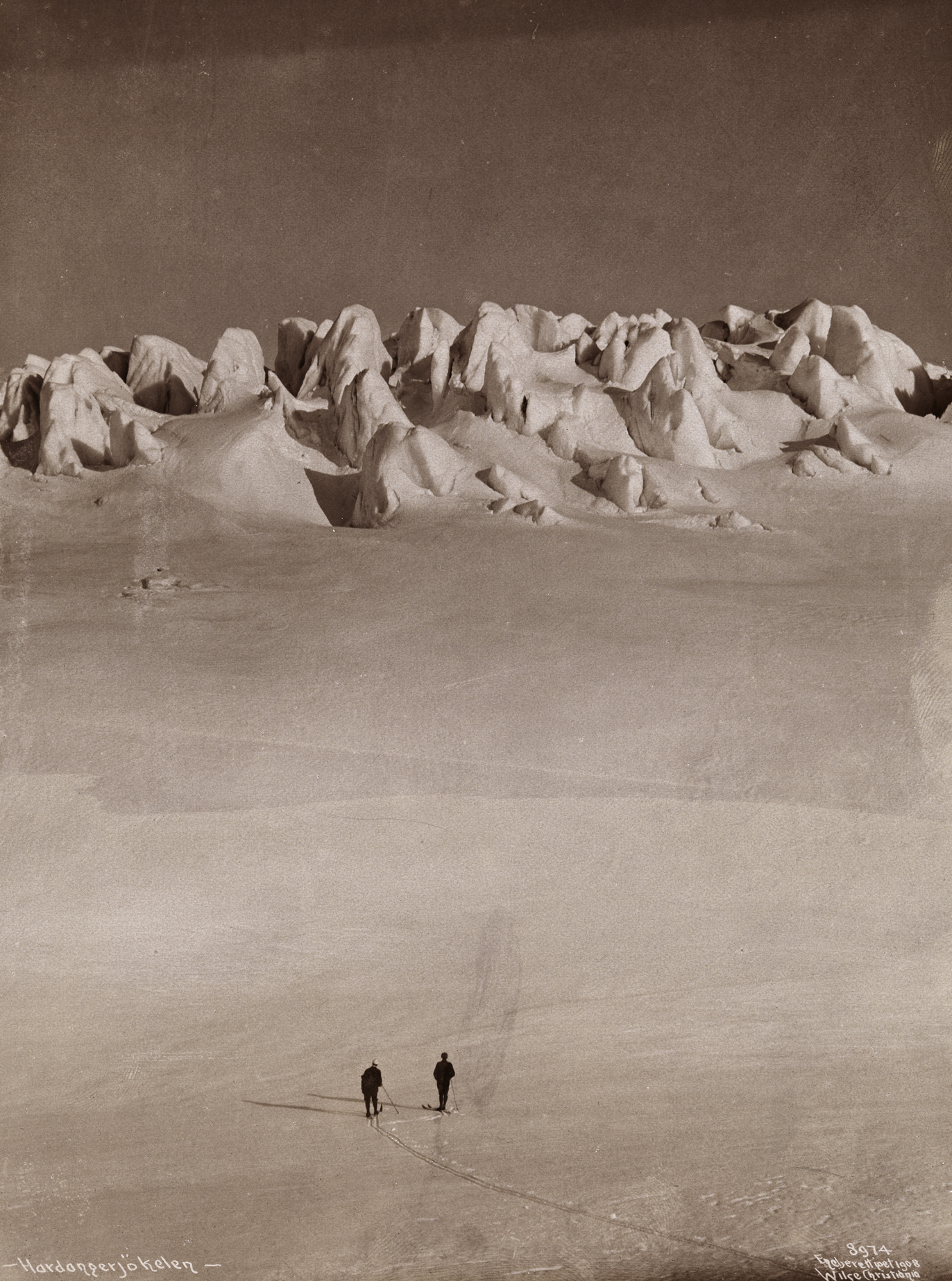 Tittel / Title: 8974. Hardangerjøkelen Dato / Date: 1908 Fotograf / Photographer: Anders Beer Wilse (1865-1949) Sted / Place: Hordaland, Hardangerjøkulen Eier / Owner Institution: Nasjonalbiblioteket / National Library of Norway Lenke / Link: Bildesignatur / Image Number: bldsa_FA0768